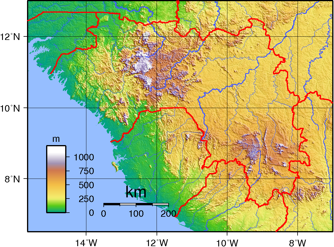 Topographic map of Guinea. Created with GMT from public doman SRTM data.